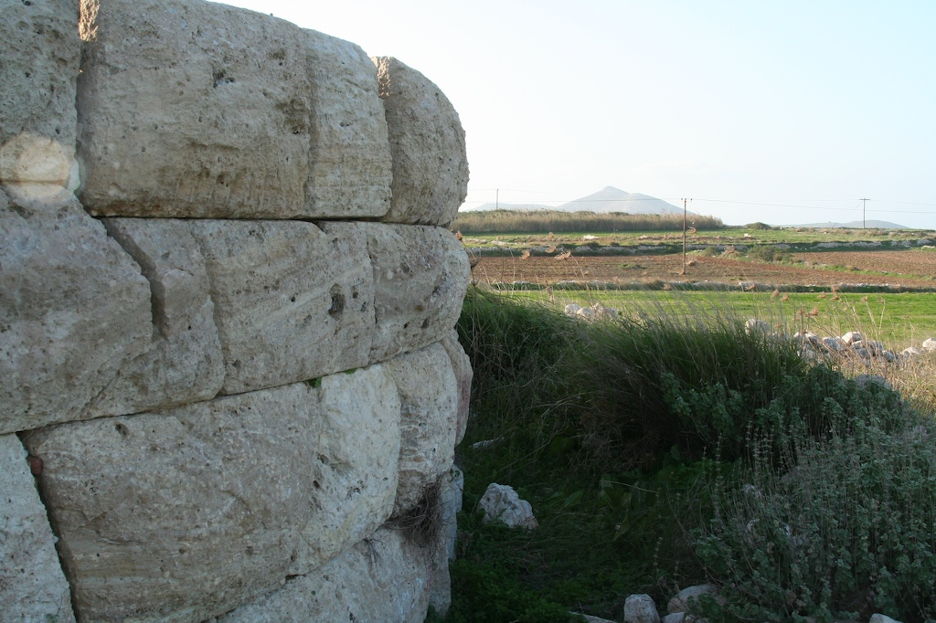 Outside Marpissa on Paros, Dec 2006 - our last car ride around the island before leaving for the States. This historical site was in the middle of a field being plowed, with several brown signs in English explaining that it is a tower of Hellenistic period.